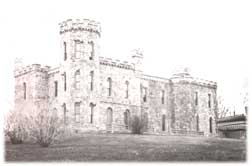 el castillo en 1895.